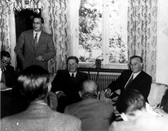 The announcement by the Soviets of the intention to launch an Earth satellite during the IGY. This photo was taken at the Legation of the Soviet Union in Copenhagen, Denmark, during the 6th International Astronautical Congress, August 1955, shortly after the Americans announced their intentions to launch a satellite. Left to right: Mr. Vereschetin and Mr. Sannikov of Soviet State Security; Kyrill F. Ogorodikov, professor of astronomy, Leningrad University; and Leonid Ivanovich Sedov, specialist in mechanics, Soviet Academy of Sciences.